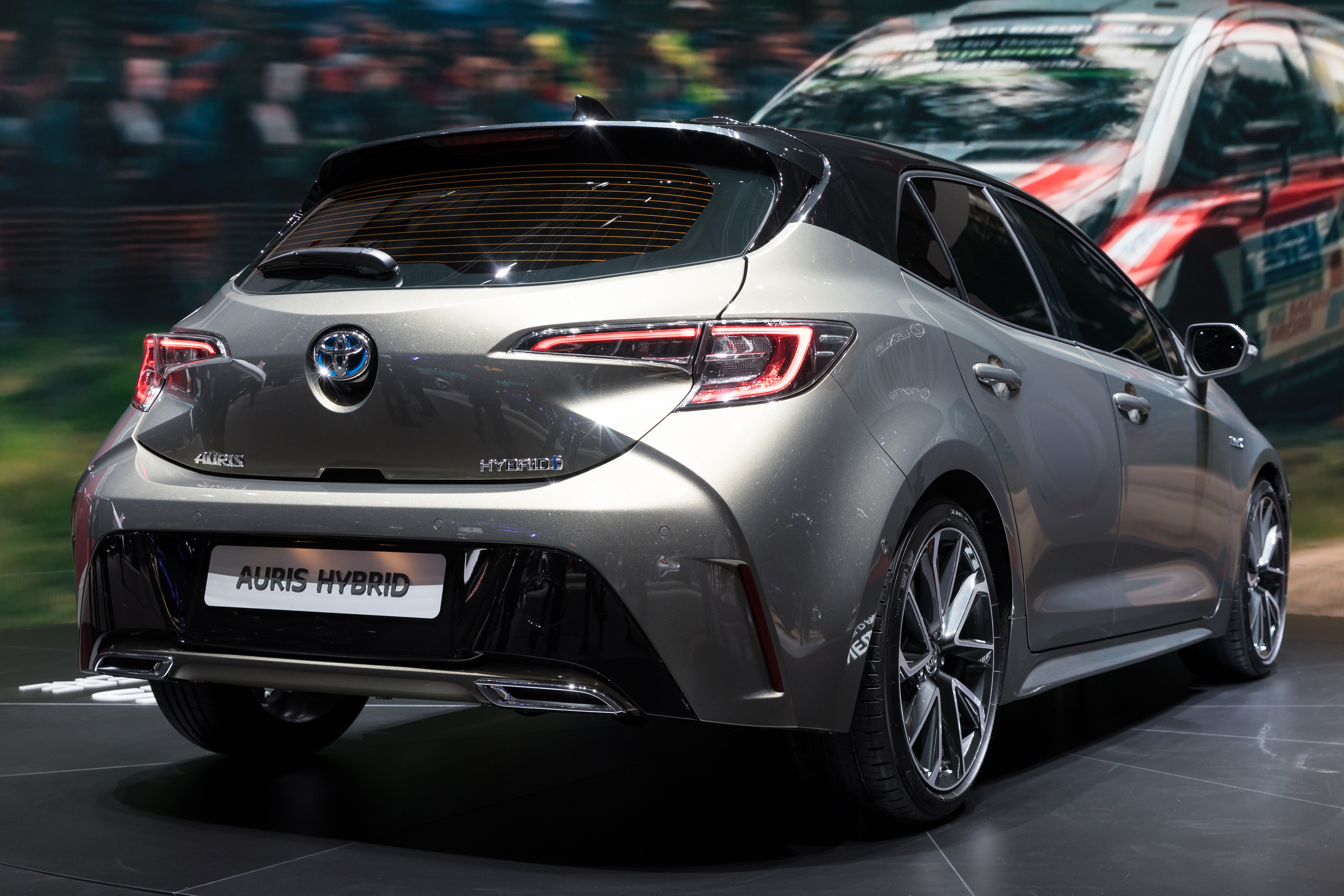 Geneva International Motor Show 2018